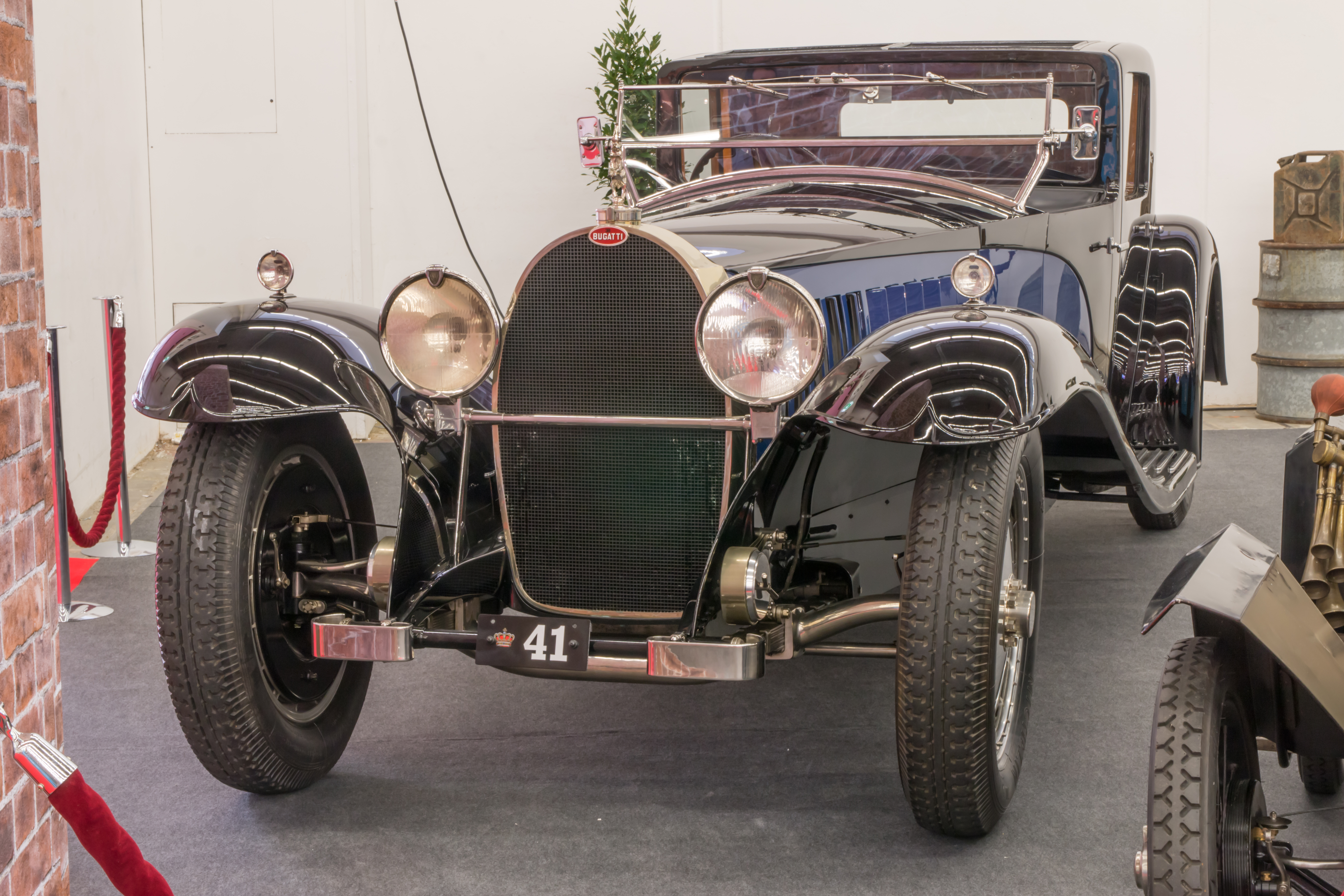 Bugatti Type 41 Royale Coupé Napoléon